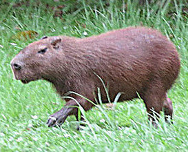 A family of Lesser Capybara head for the effluent pond at Gamboa Rainforest Resort in Panama. The species is found in Panama and northernmost South America.